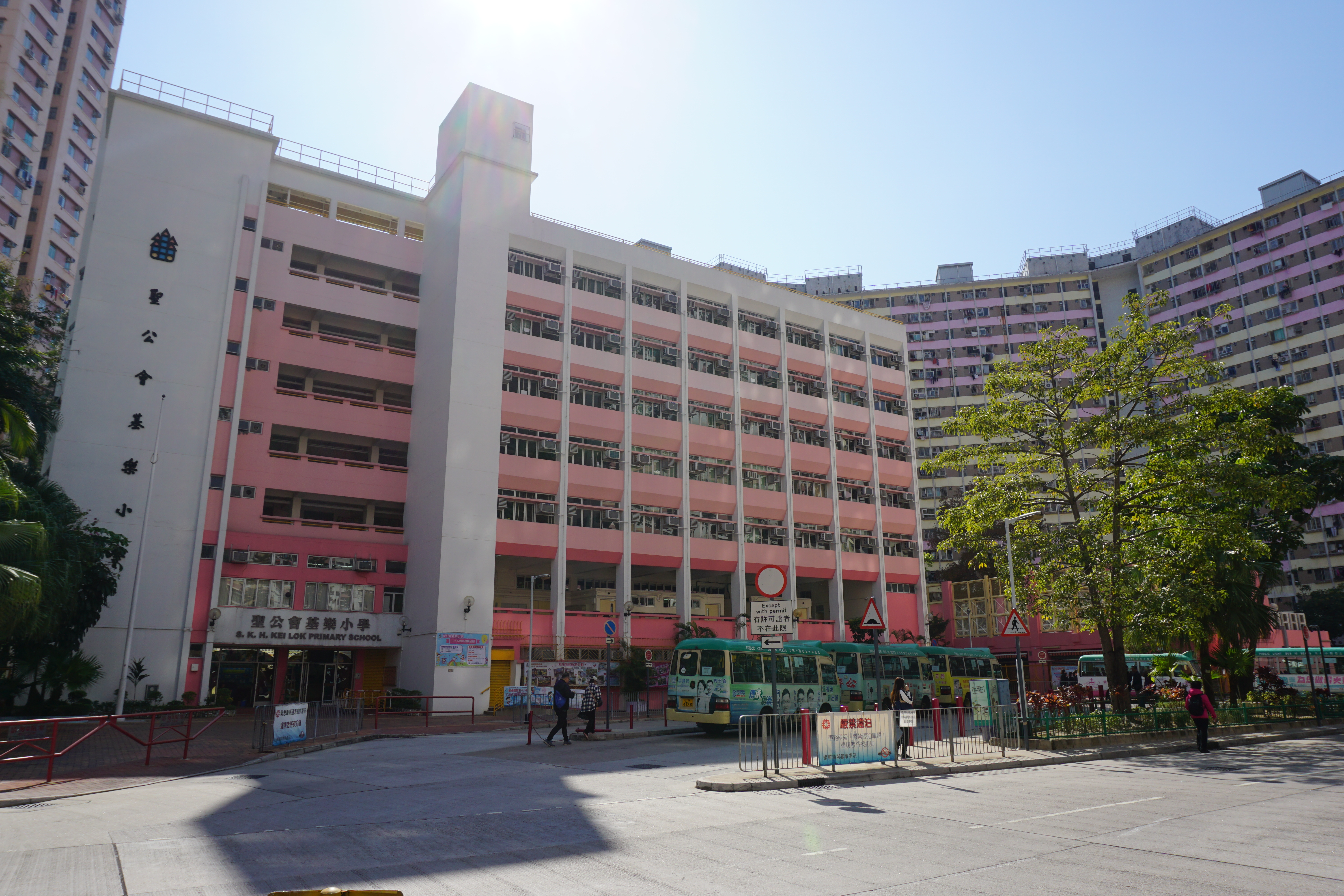 S.K.H. Kei Lok Primary School in Ngau Tau Kok, Hong Kong.